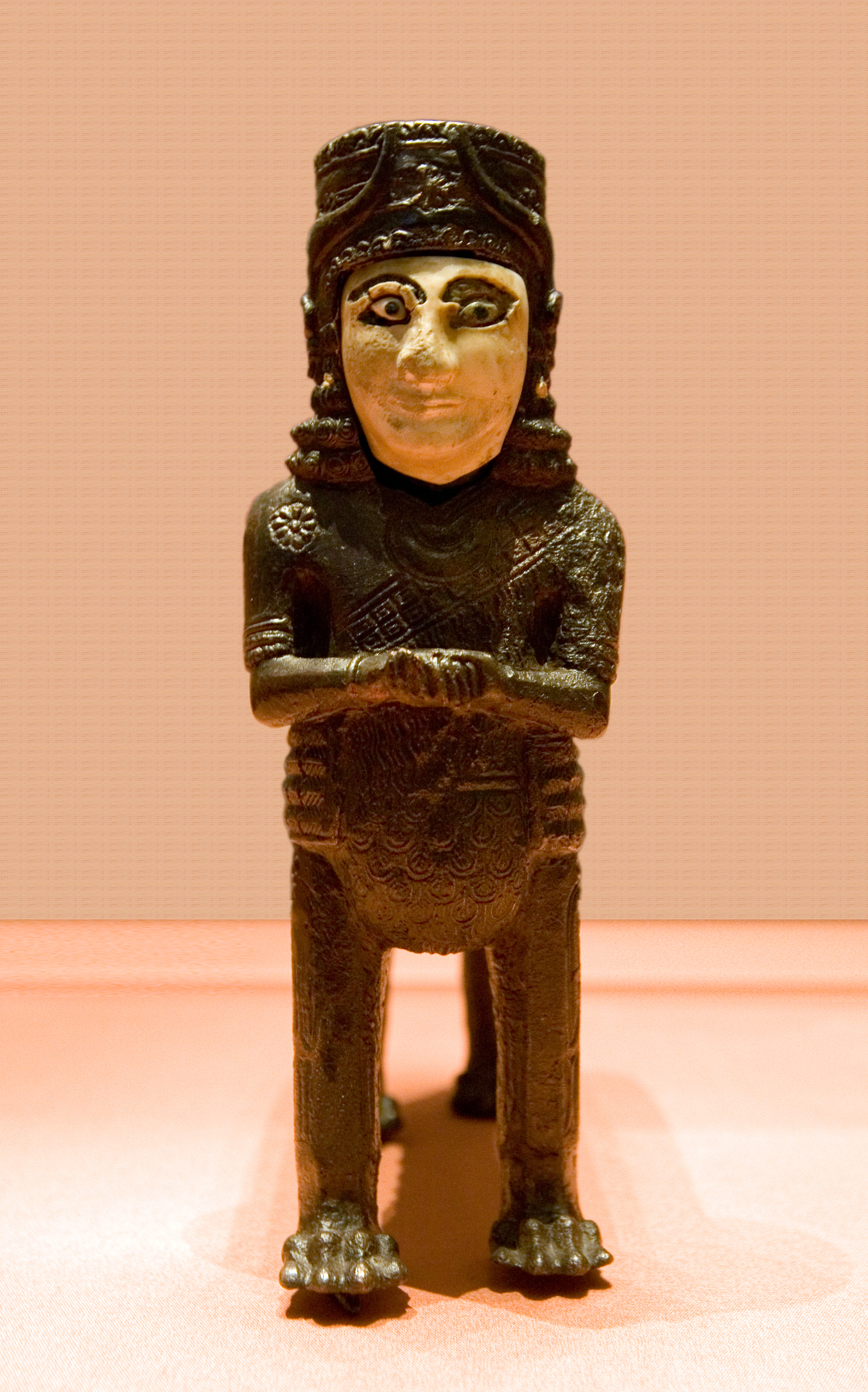 Urartian God